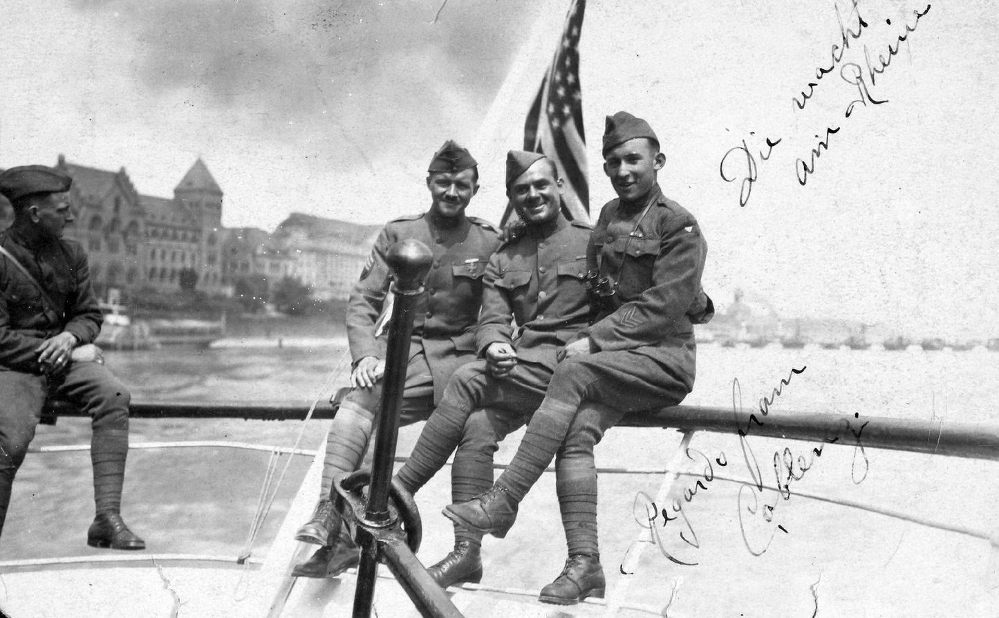 1st Aero Squadron - 3d Army Rhine